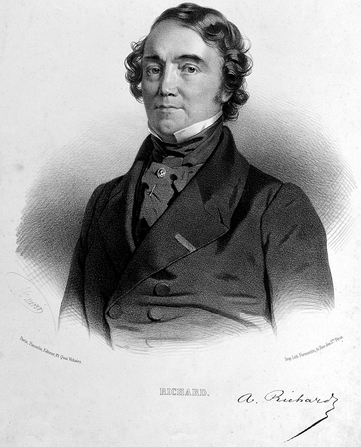 Achille Richard. Lithograph by N.-E. Maurin. Iconographic Collections Keywords: Achille Richard; Nicolas-Eustache Maurin